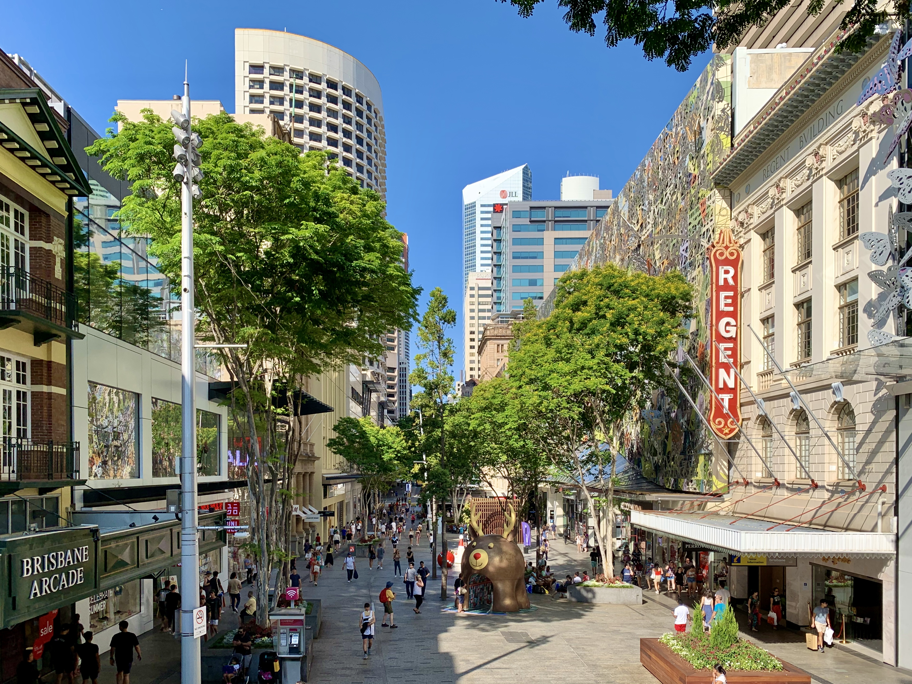 Queen Street Mall, Brisbane in Jan 2020